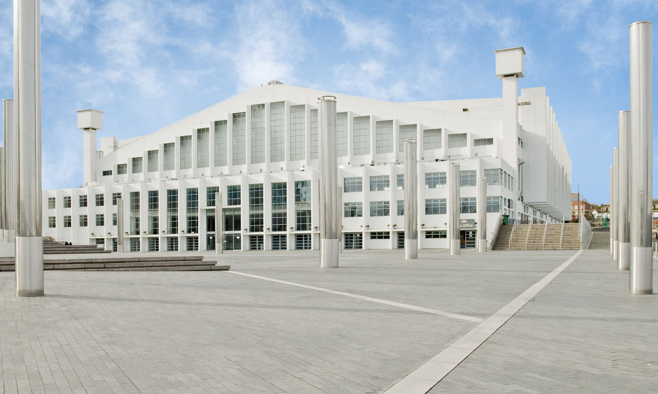 © Copyright Peter Stevens Photography 2007